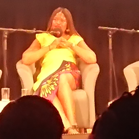 Five speakers at The Untold Festival, BBC Broadcasting House. Left to right the people depicted are presenter Grace Dent, editor Philip Sellars, novellist Chibundu Onuzo, screenwriter Laurie Nunn and podcast producer Jennifer Forde.